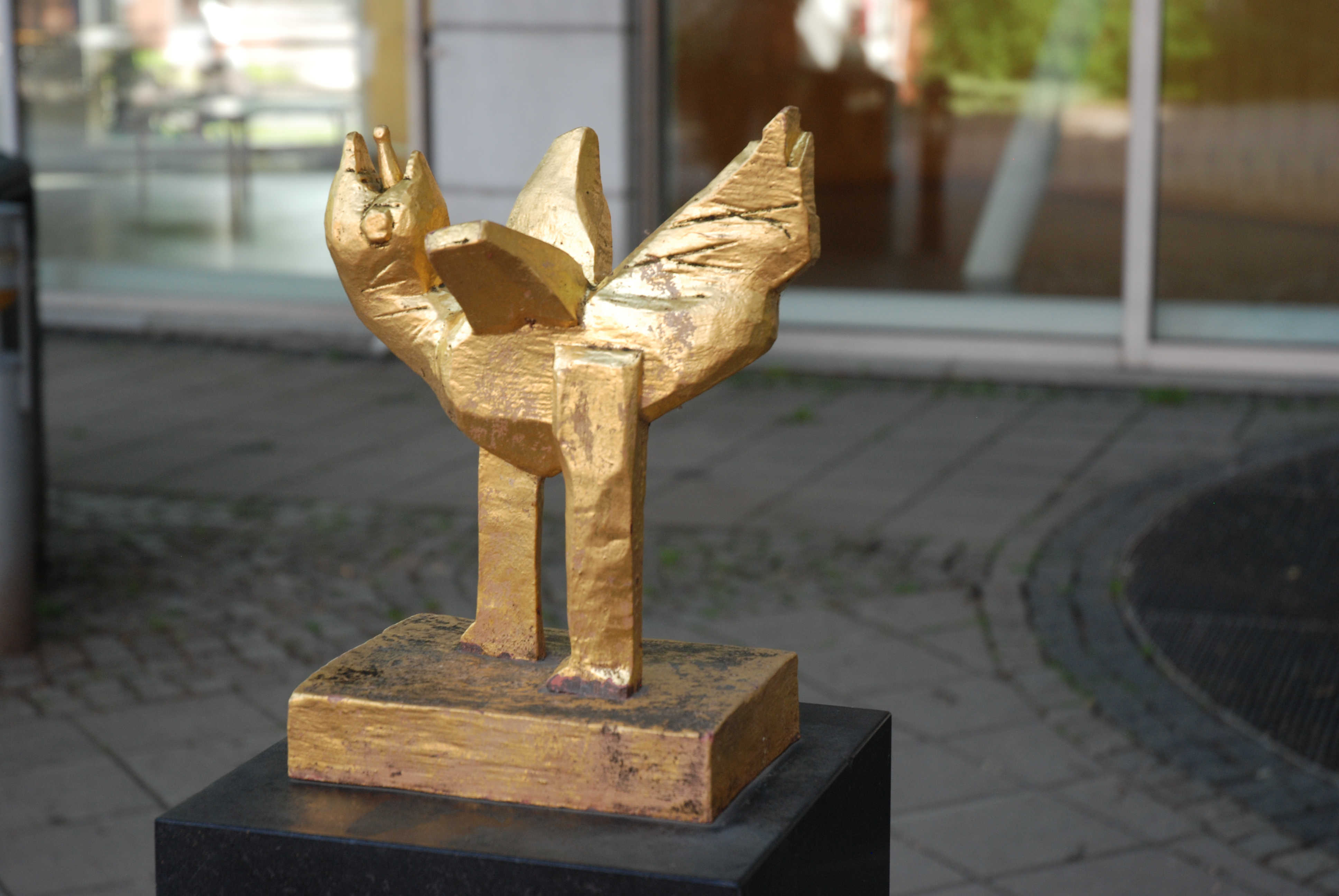 Torsten Renqvist´s sculpture Fågel Fenix (Phoenix) outside the Town Hall of Skövde, Sweden